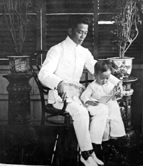 Emilio Aguinaldo with his son Emilio Jr. in Manila. 4 June 1906